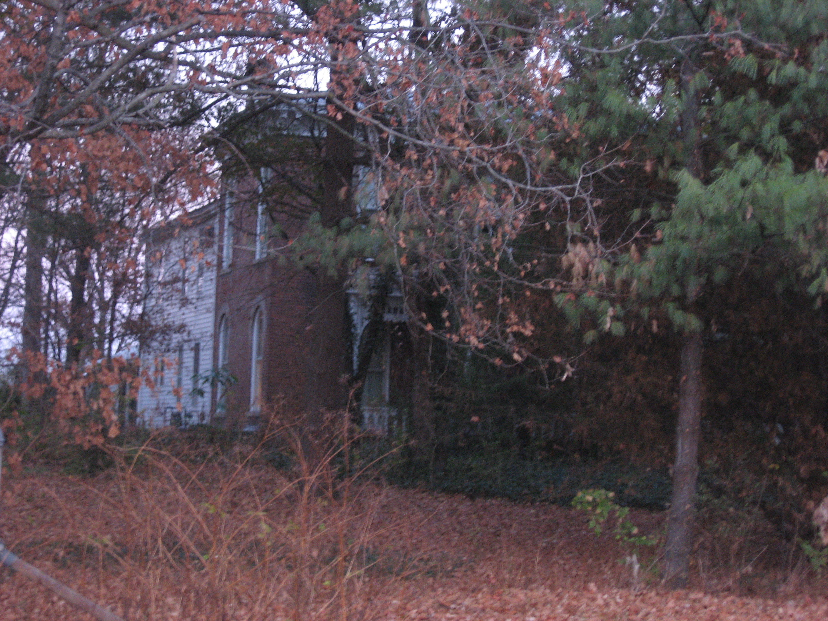 Front of the Roudebush Farmhouse, located at 8643 Kilby Road south of Harrison in Harrison Township, Hamilton County, Ohio, United States. Built in 1859, the farmhouse and several related buildings are listed together on the National Register of Historic Places.